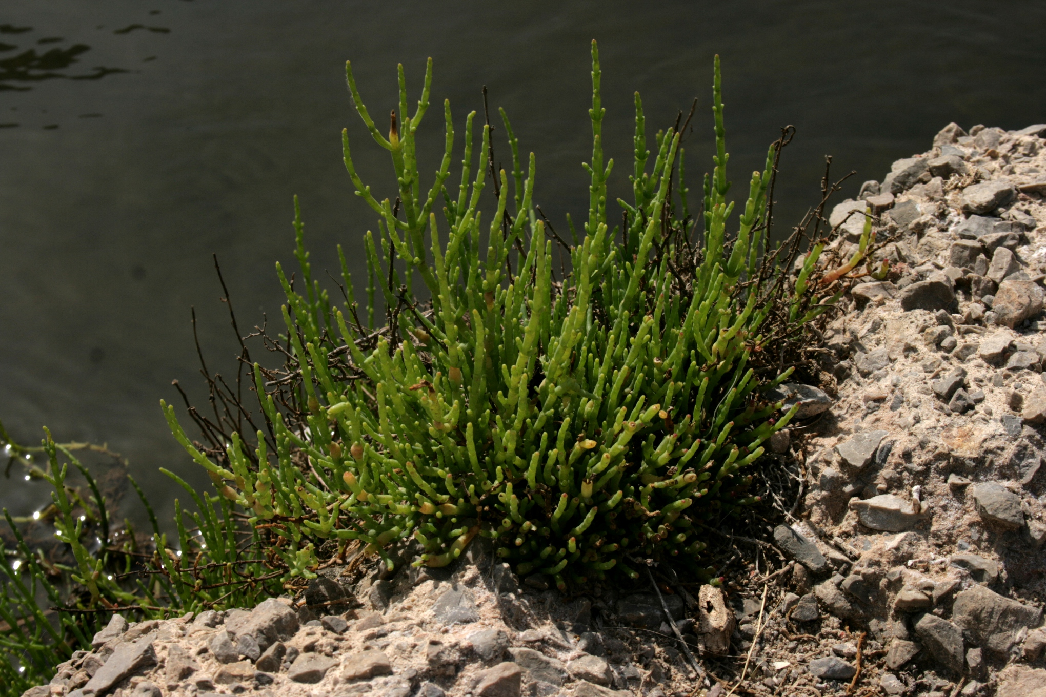 Arthrocnemum perenne: Habitus